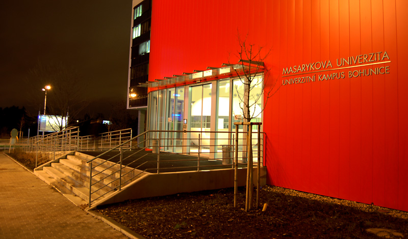 Night photo of main entrance of University campus Brno - Bohunice.